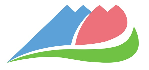 Ina Nagano chapter